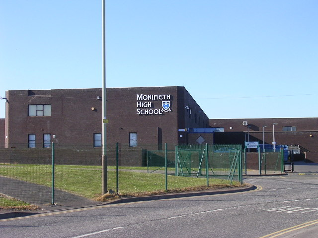 Monifieth High School. Much of the southern portion of this grid box is occupied by Monifieth High School and its grounds. The building opened its doors to pupils and teachers(the photographer amongst them) in August 1979.